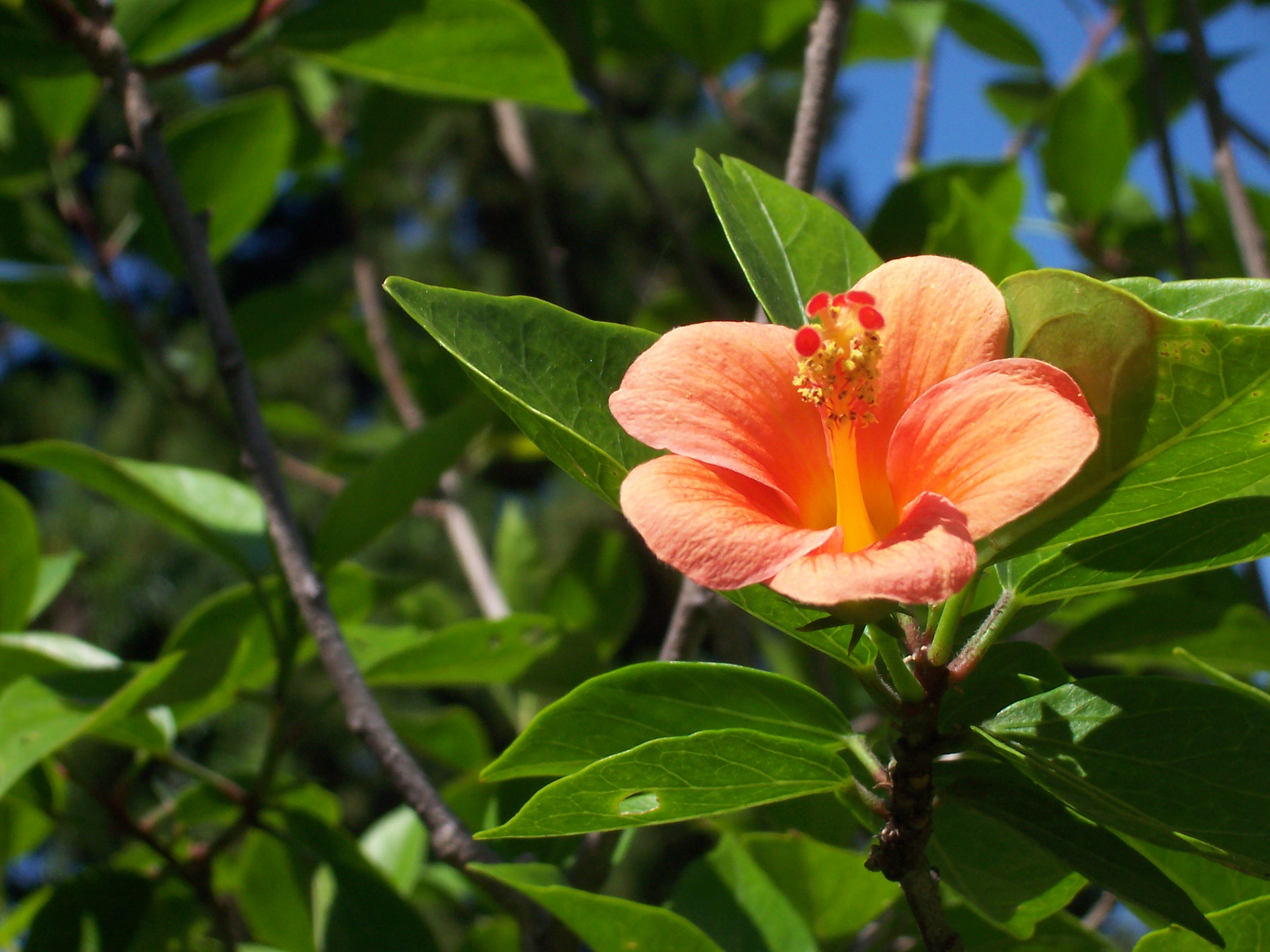 Hibiscus boryanus (flower: orange variety)